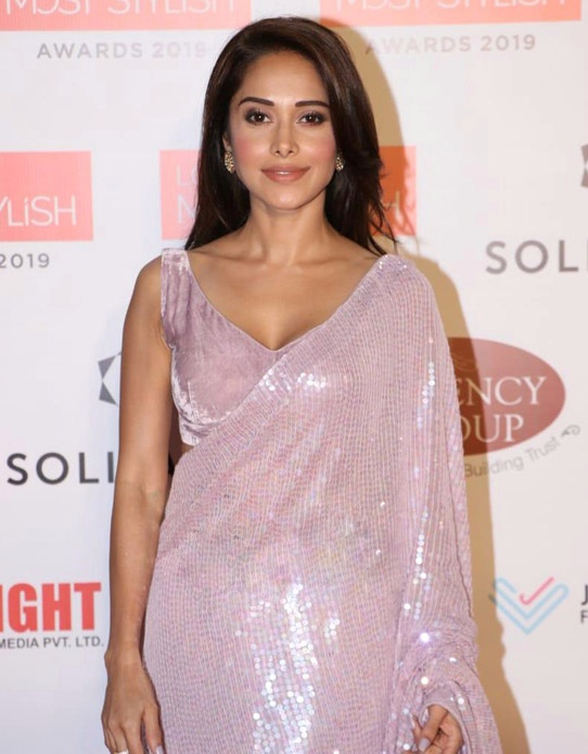 Nushrat Bharucha at Lokmat Most Stylish Awards 2019